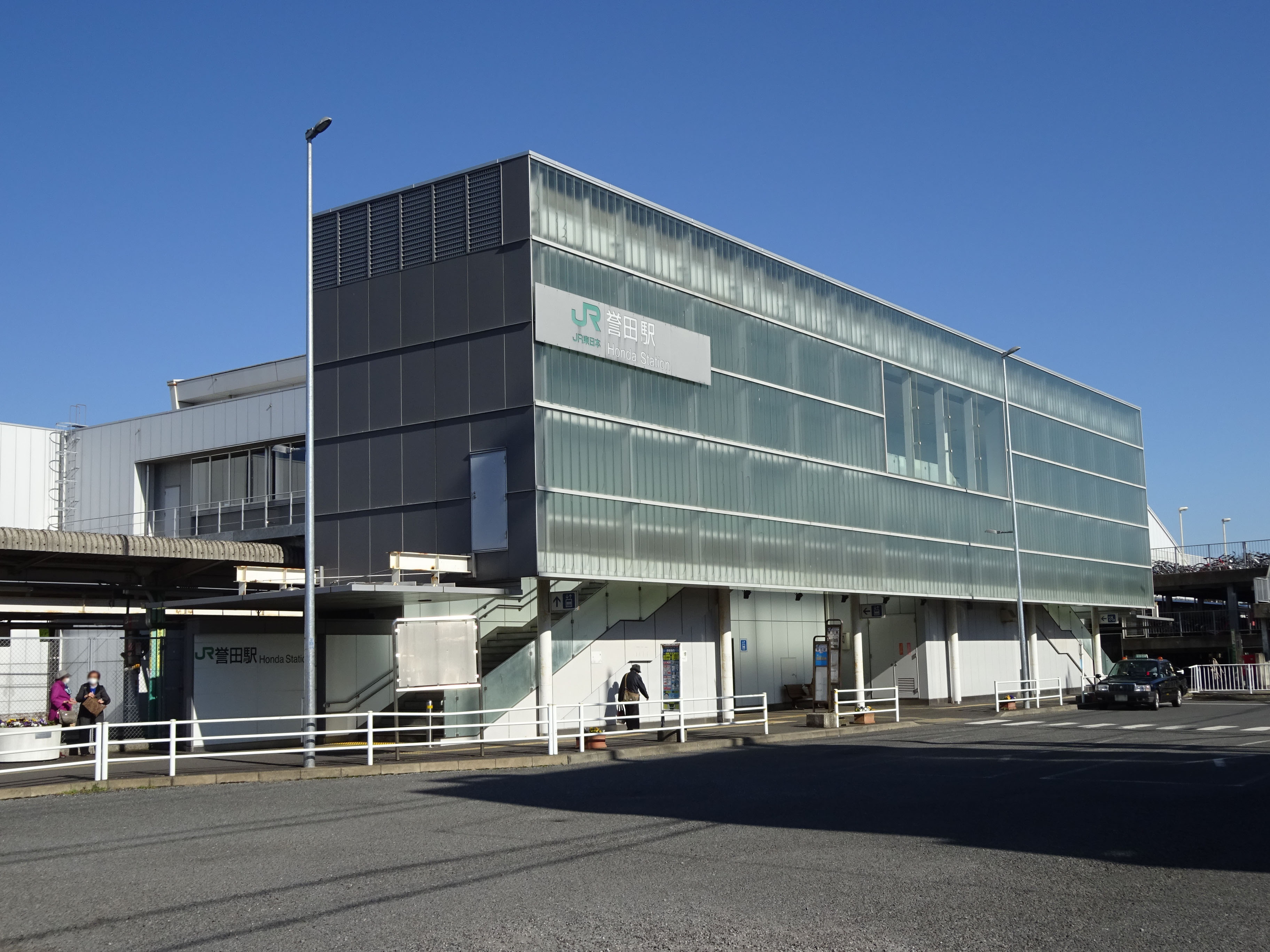 South entrance of Honda Station